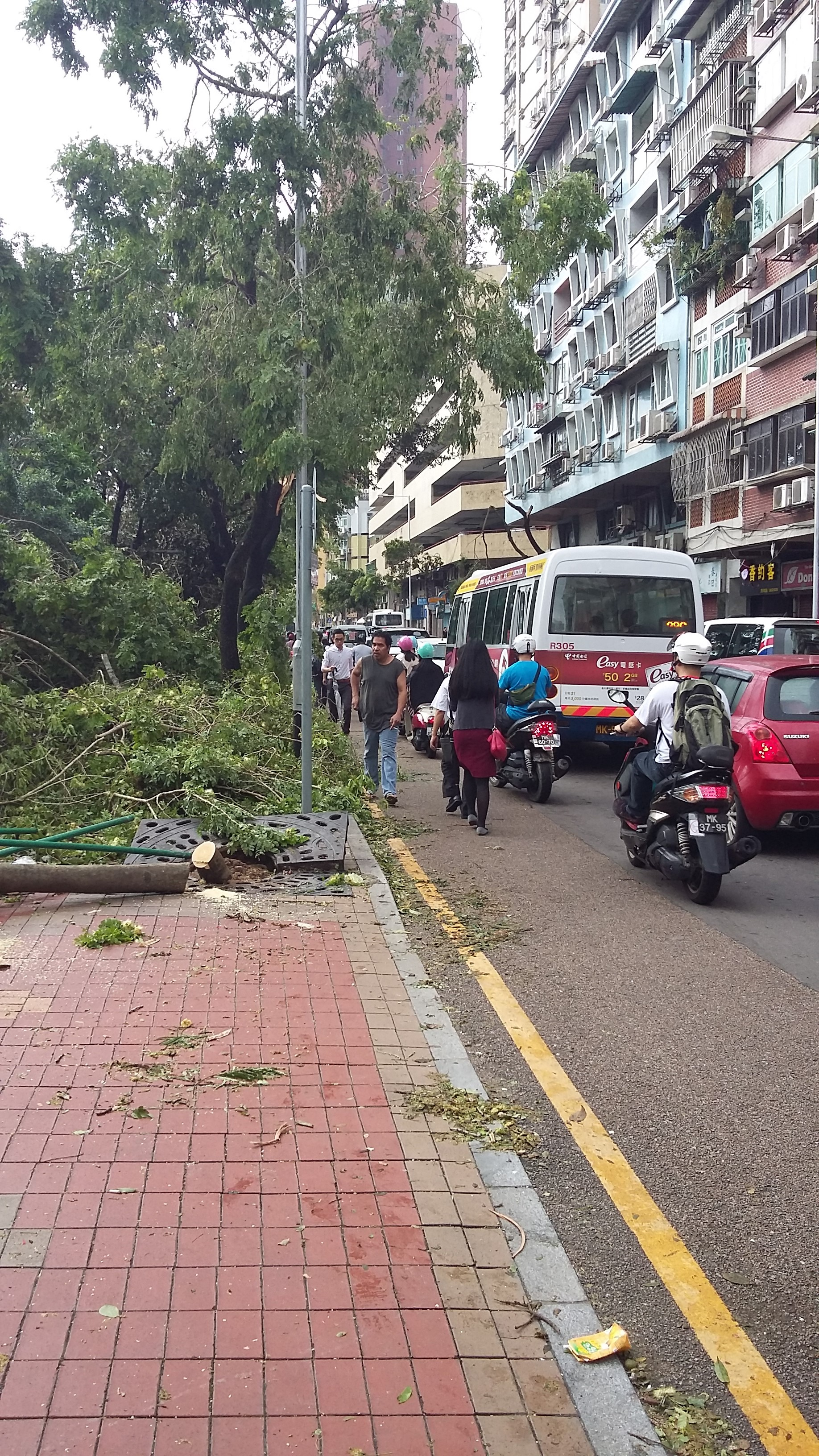 After the storm, at Freguesia de São Lázaro.